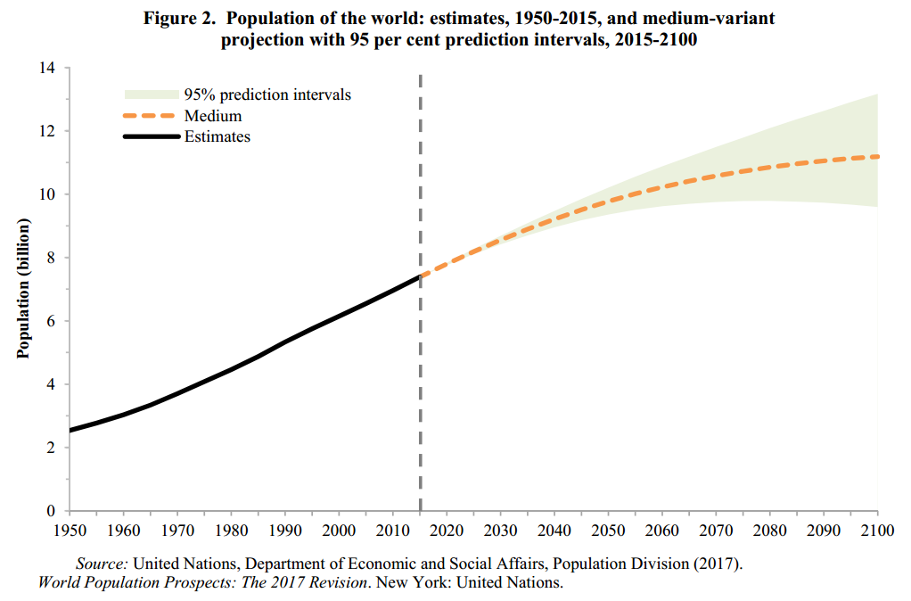 Population of the world: estimates, 1950-2015, and medium-variant projection with 95 per cent prediction intervals, 2015-2100